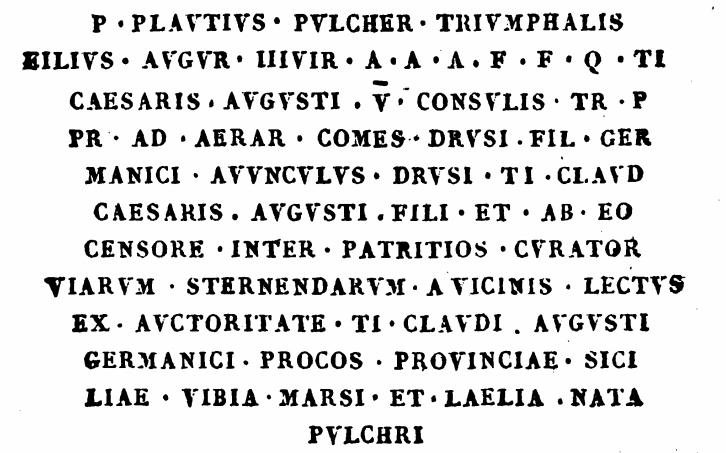 Quarta iscrizione del mausoleo dei plautii